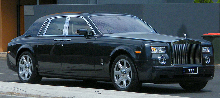 2003–2008 Rolls-Royce Phantom, photographed in South Australia, Australia.